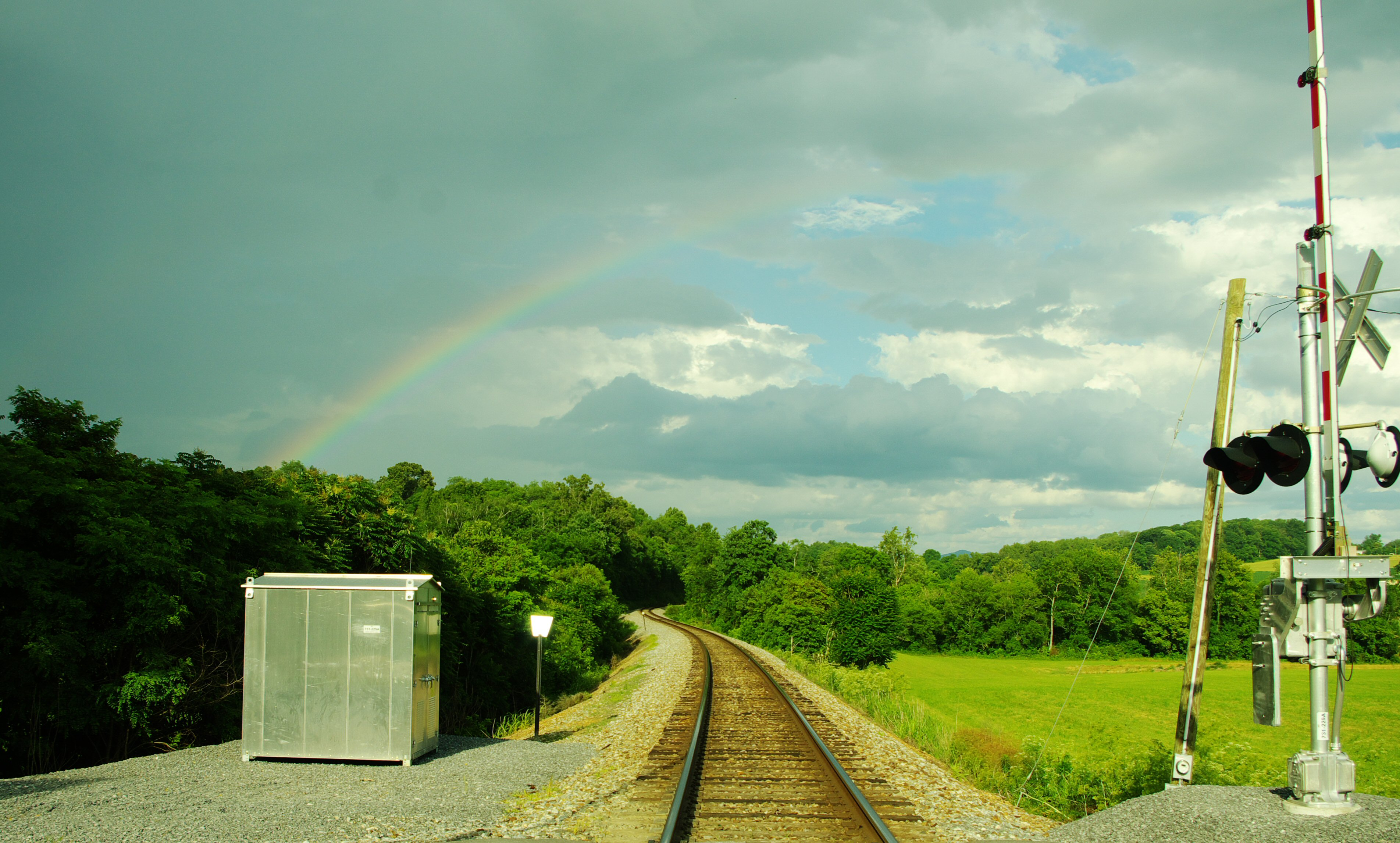 Rainbow over the Norfolk Southern tracks in Washington County, Tennessee, United States.